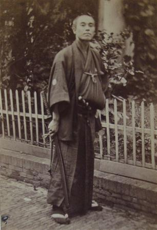 Fukuzawa Yukichi as an interpreter of the First Japanese Embassy to Europe (1862) in Utrecht, Netherlands.